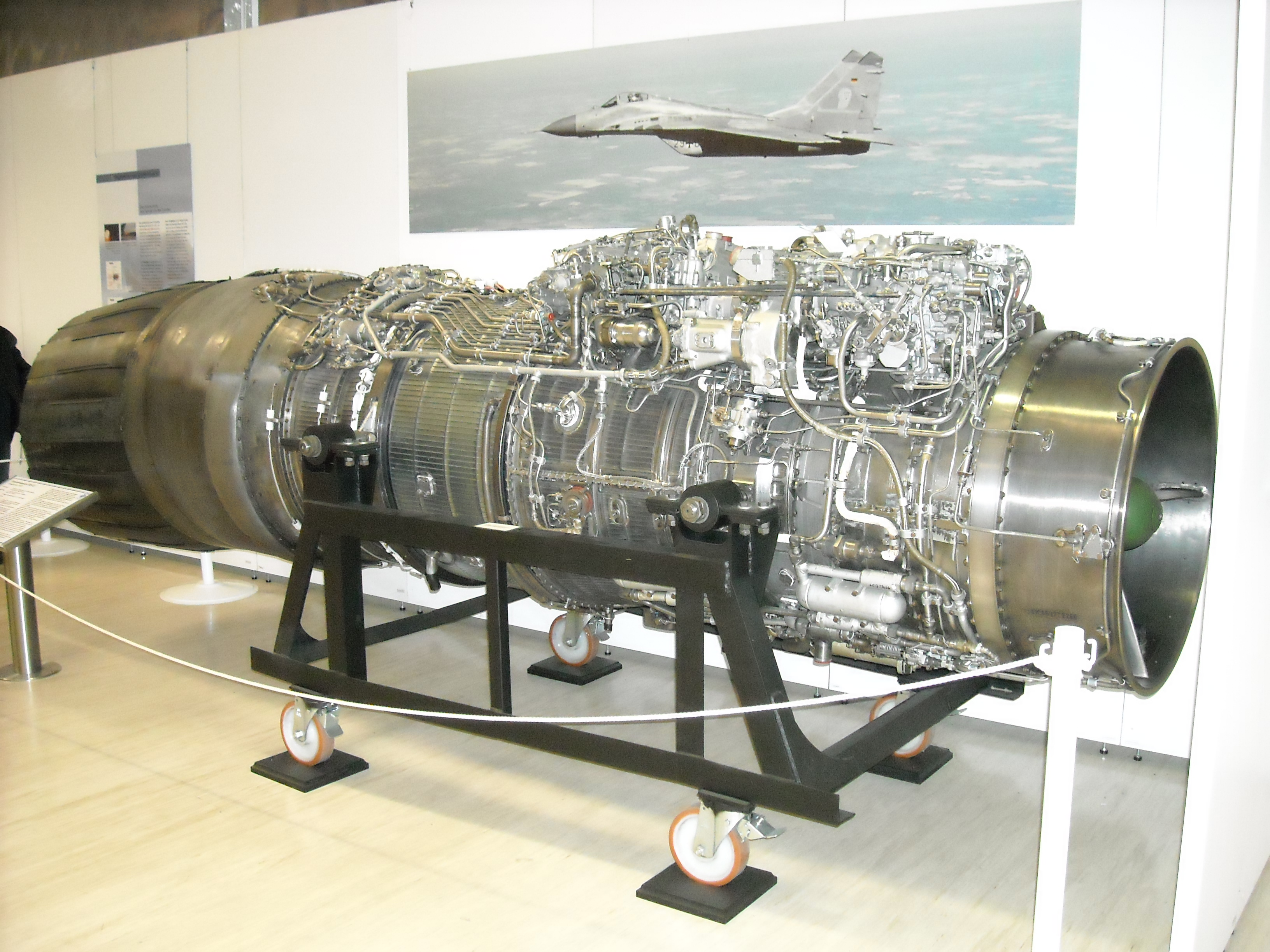 The Klimov RD-33 low-bypass turbofan engine on display at the Air Force Museum of the Bundeswehr (Luftwaffenmuseum der Bundeswehr) at Berlin-Gatow airfield. The picture behind the engine shows Luftwaffe's MiG-29, on which this RD-33 was applied.